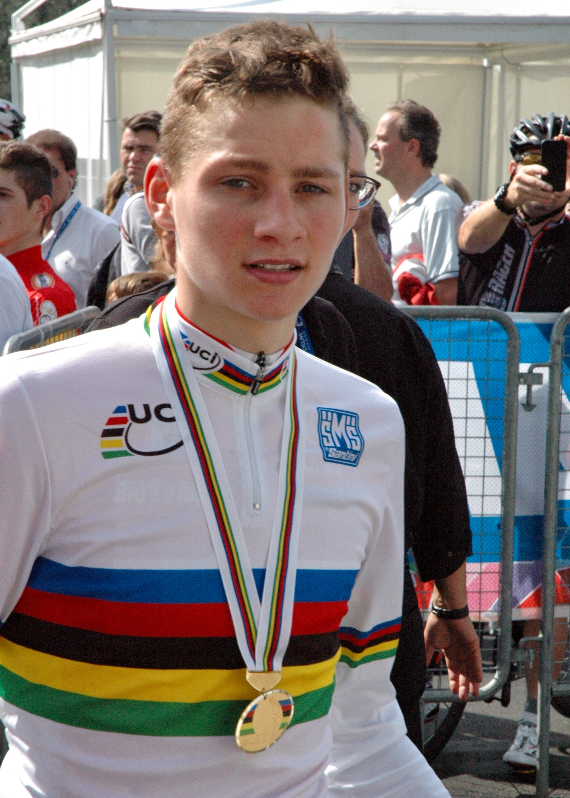 2013 UCI Road World Championships – Men's junior road race